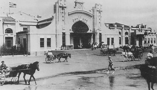 Harbin Station circa 1940